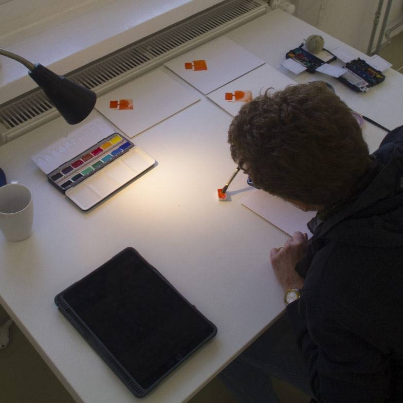 Barbara Bolt, Digital artist at her desk. (2019)